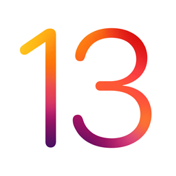 Logo of the iOS 13 operating system by Apple Inc.